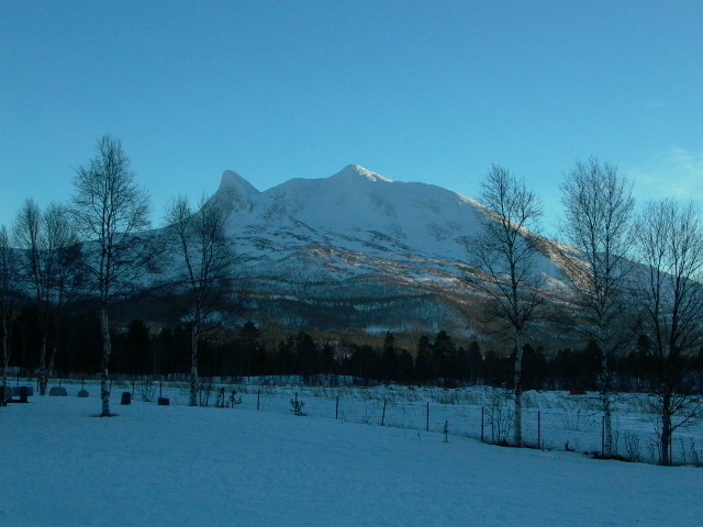 The mountain Tellingen 1248 m (4100 ft) above sea level) in Beiarn, Nordland, Norway, seen from the west. Some downy birch trees (Betula Pubescens) in the foreground.